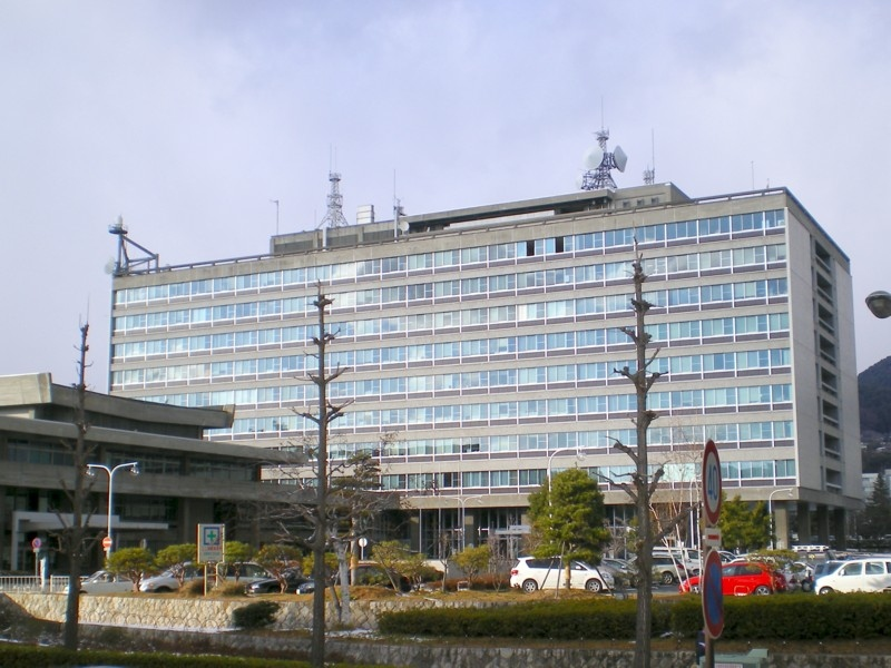 Nagano Prefectural Government's office(Nagano-shi, Nagano, Japan)